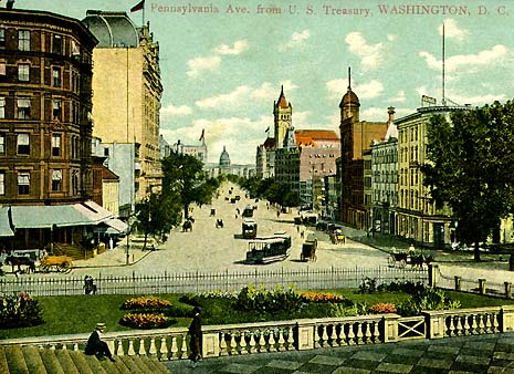 Pennsylvania Avenue, Washington D.C., c. 1900